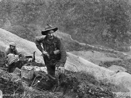 AWM Caption: New Guinea: Huon Peninsula, Finisterre Ranges. NX10251 LIEUTENANT E.V. STEPHENSON (FOREGROUND) OF "A" COMPANY, 2/9TH INFANTRY BATTALION AND QX54942 SIGNALMAN J.J. O'CONNOR (LEFT BACKGROUND) AT A NEWLY ESTABLISHED SIGNAL POST DURING THE BATTLE FOR SHAGGY RIDGE. BELOW IN THE VALLEY CAN BE SEEN THE FARIA RIVER.